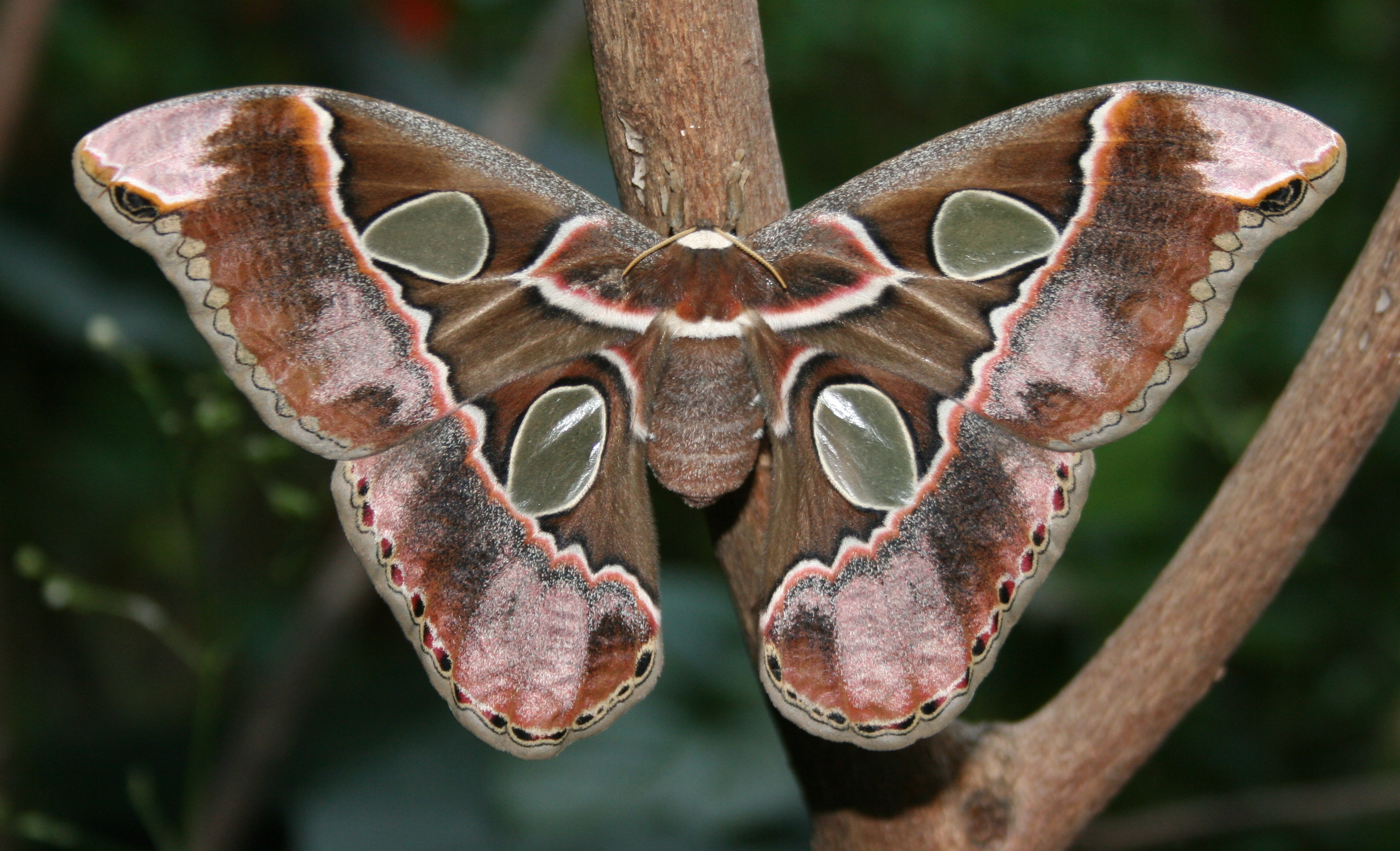 Moth on branch